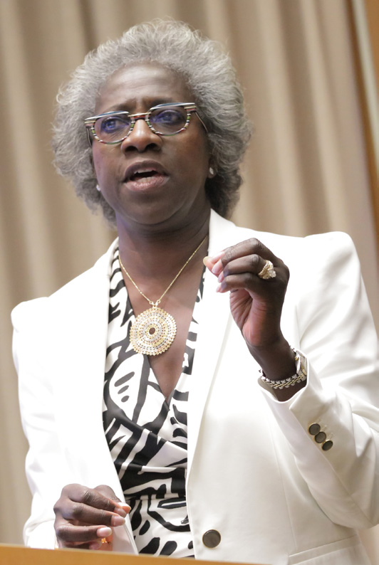 Dr. Hannah Valantine, NIH Chief Officer for Scientific Workforce Diversity